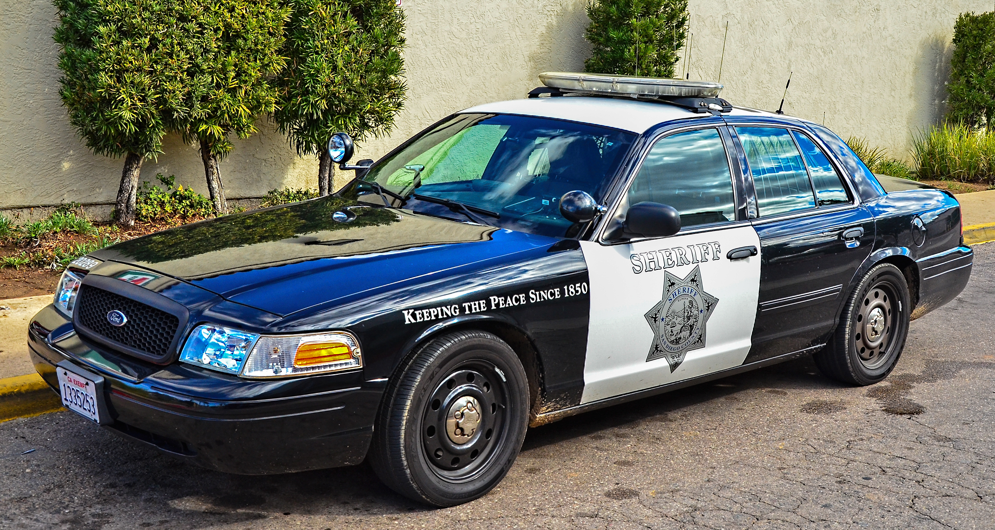 TDelCoro December 14, 2015